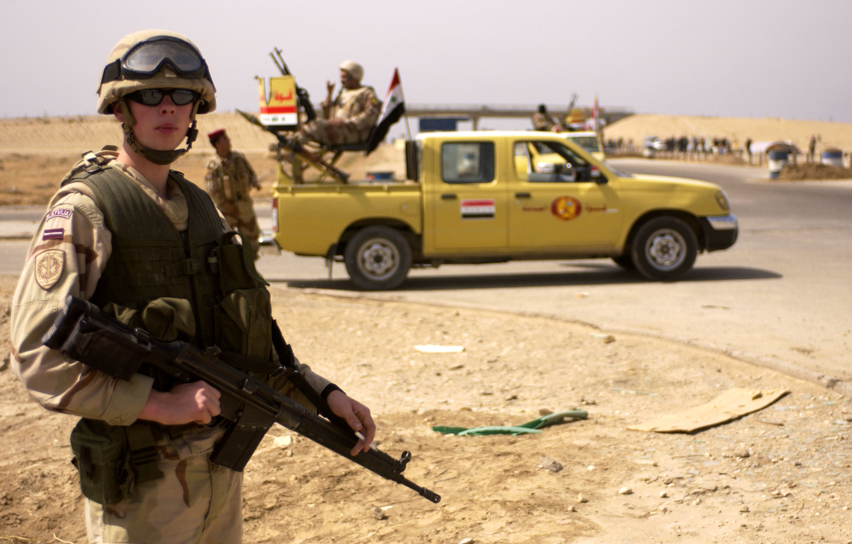 A Latvian army soldier with Multinational Division - Central South keeps a watchful eye on traffic at a checkpoint on Tampa Road in Diwaniyah, Iraq, during a patrol with Iraqi army 8th Division soldiers March 13, 2006. DoD photo by Senior Airman Jason T. Bailey, U.S. Air Force. (Released) Location: CAMP ECHO, DIWANIYAH IRQ